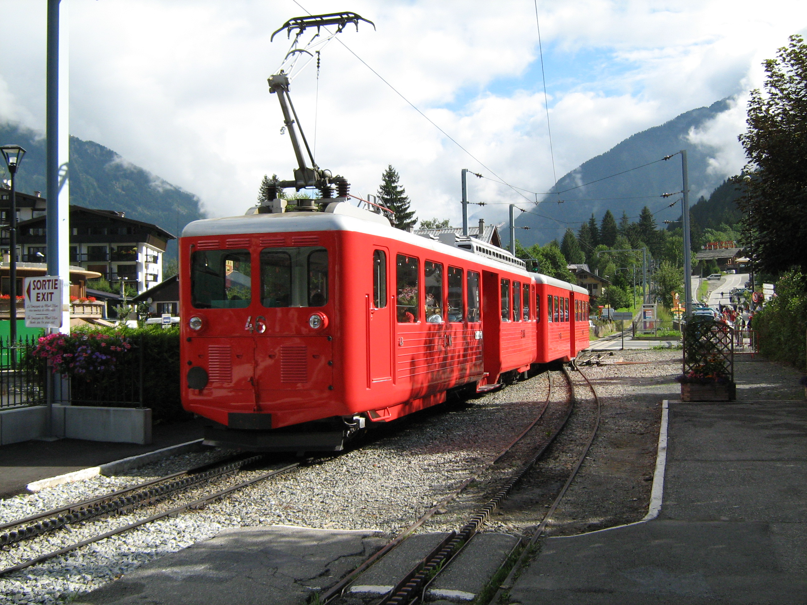 Train on the Chamonix - Montenvers Line at the station in Chamonix. August 2007.